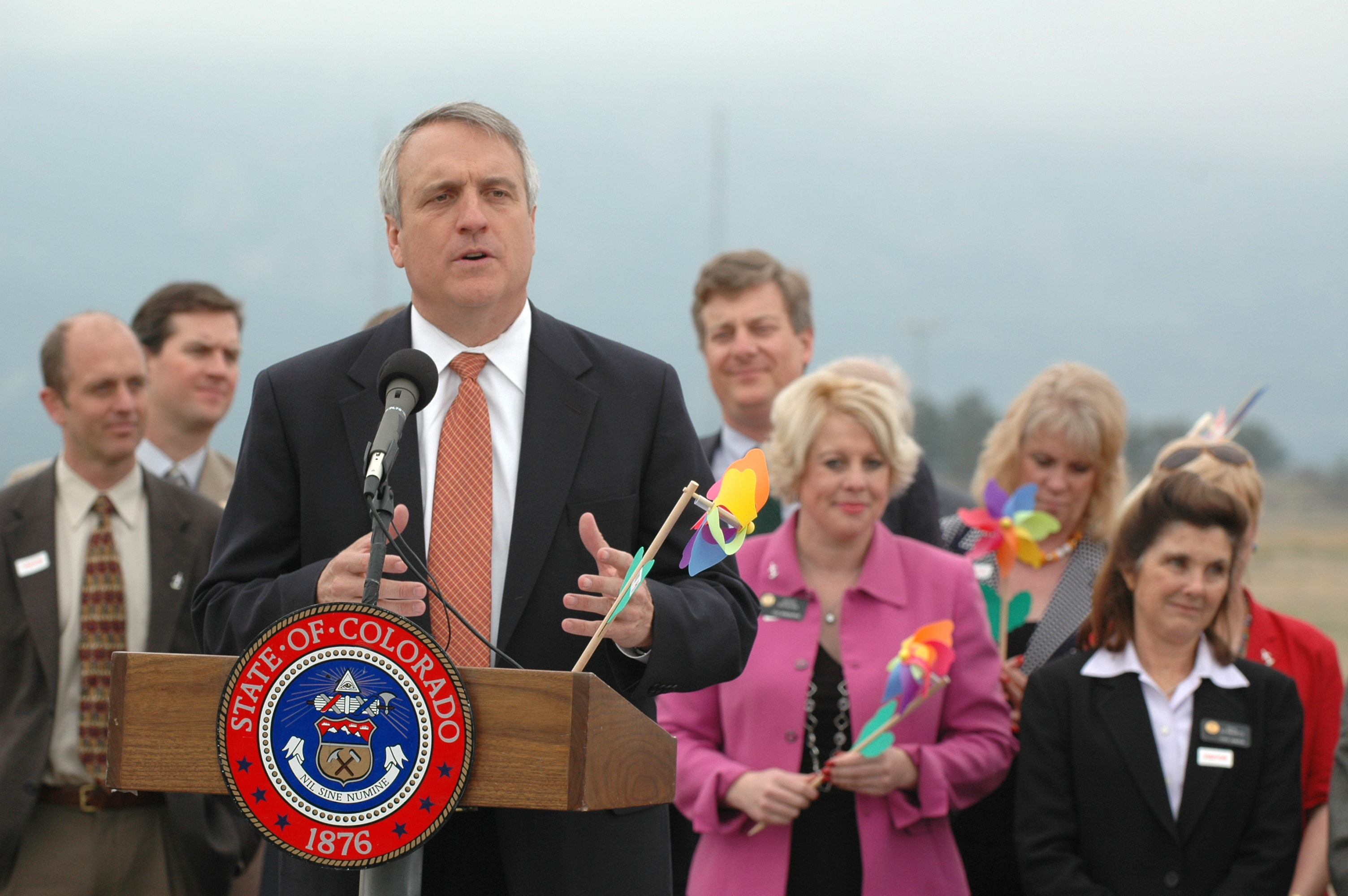 Colorado Governor Bill Ritter speaks to all those attending a Tuesday afternoon press conference held on the grounds of the National Wind Technology Center in Boulder. Ritter signed House Bill 1281 - legislation that will require 20 percent of the energy provided by Colorado's large energy utilities to come from renewable sources such as wind and solar energy by 2020.